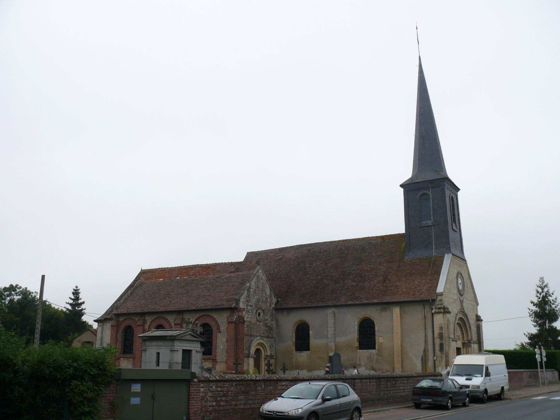 Saint-Vigor's church of Saint-Loup-de-Fribois (Calvados, Basse-Normandie, France).